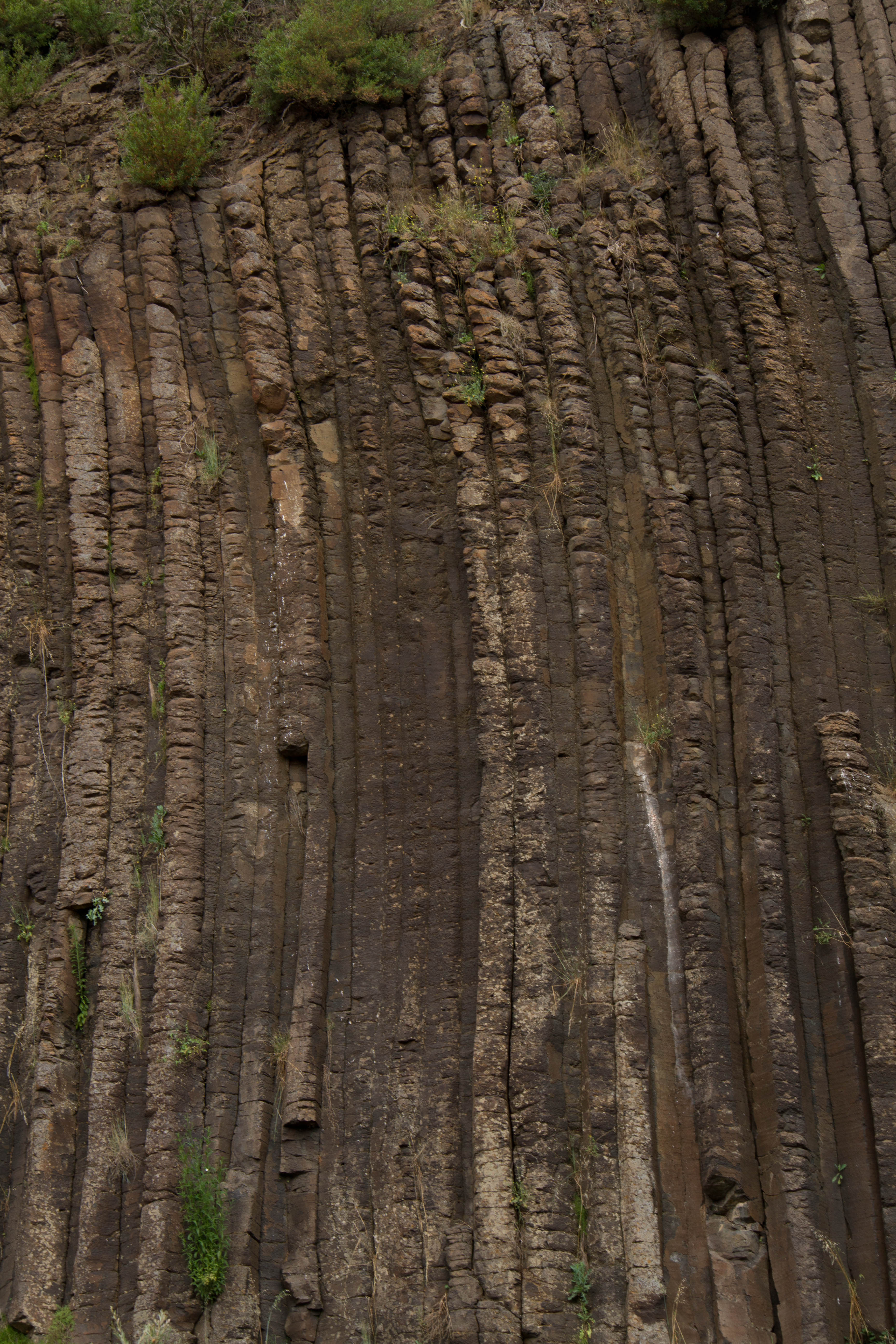 A photograph of the hexagonal basalt formations (known as 'Organ Pipes') from the Organ Pipes National Park.